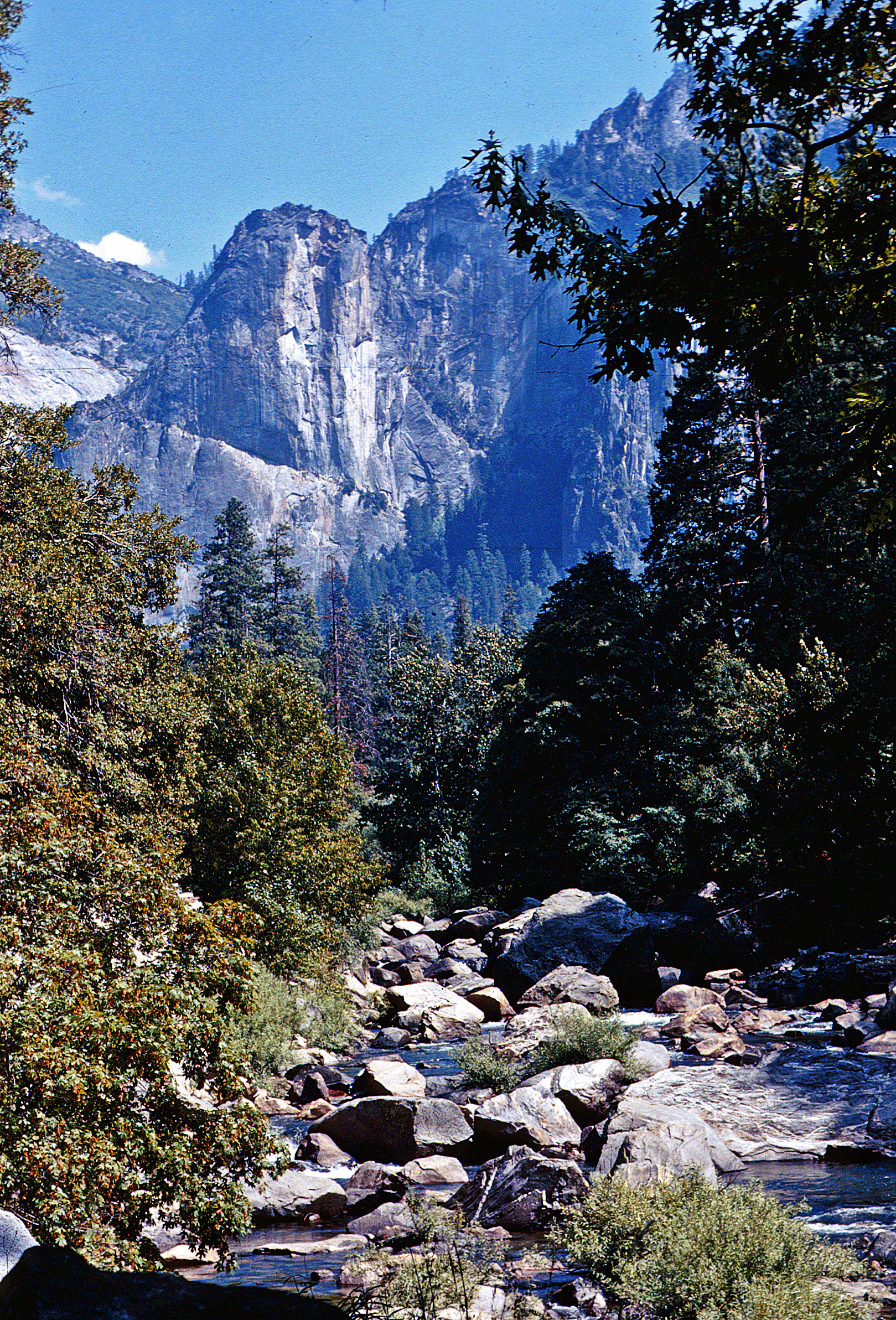 Taken from a trail in Yosemite National Park. 35MM Kodacolor film.